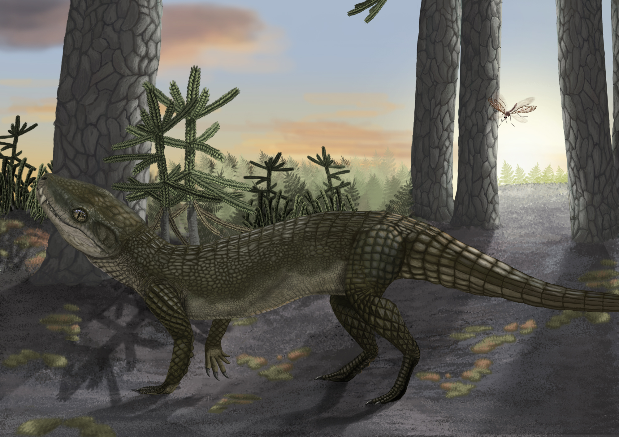 Life restoration of Pakasuchus kapilimai. Based on figure 1[1] of "The evolution of mammal-like crocodyliforms in the Cretaceous Period of Gondwana" by Patrick M. O’Connor, Joseph J. W. Sertich, Nancy J. Stevens, Eric M. Roberts, Michael D. Gottfried, Tobin L. Hieronymus, Zubair A. Jinnah, Ryan Ridgely, Sifa E. Ngasala, and Jesuit Temba (Nature 466: 748-751).